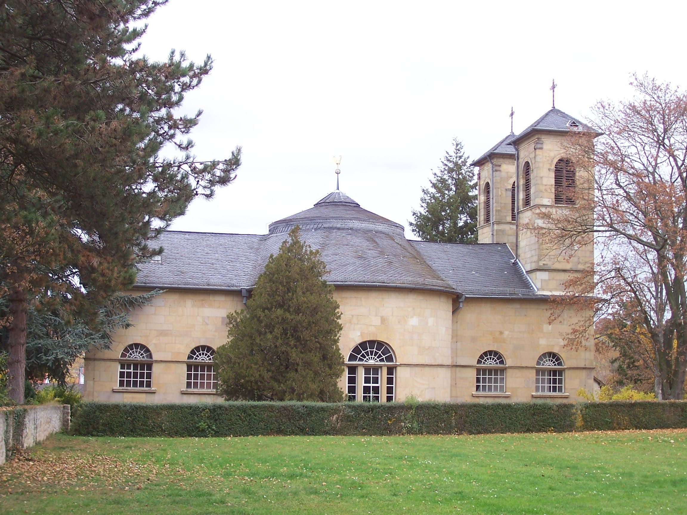 Weinsheim in the district of Bad Kreuznach, in Rhineland-Palatinate, Germany.